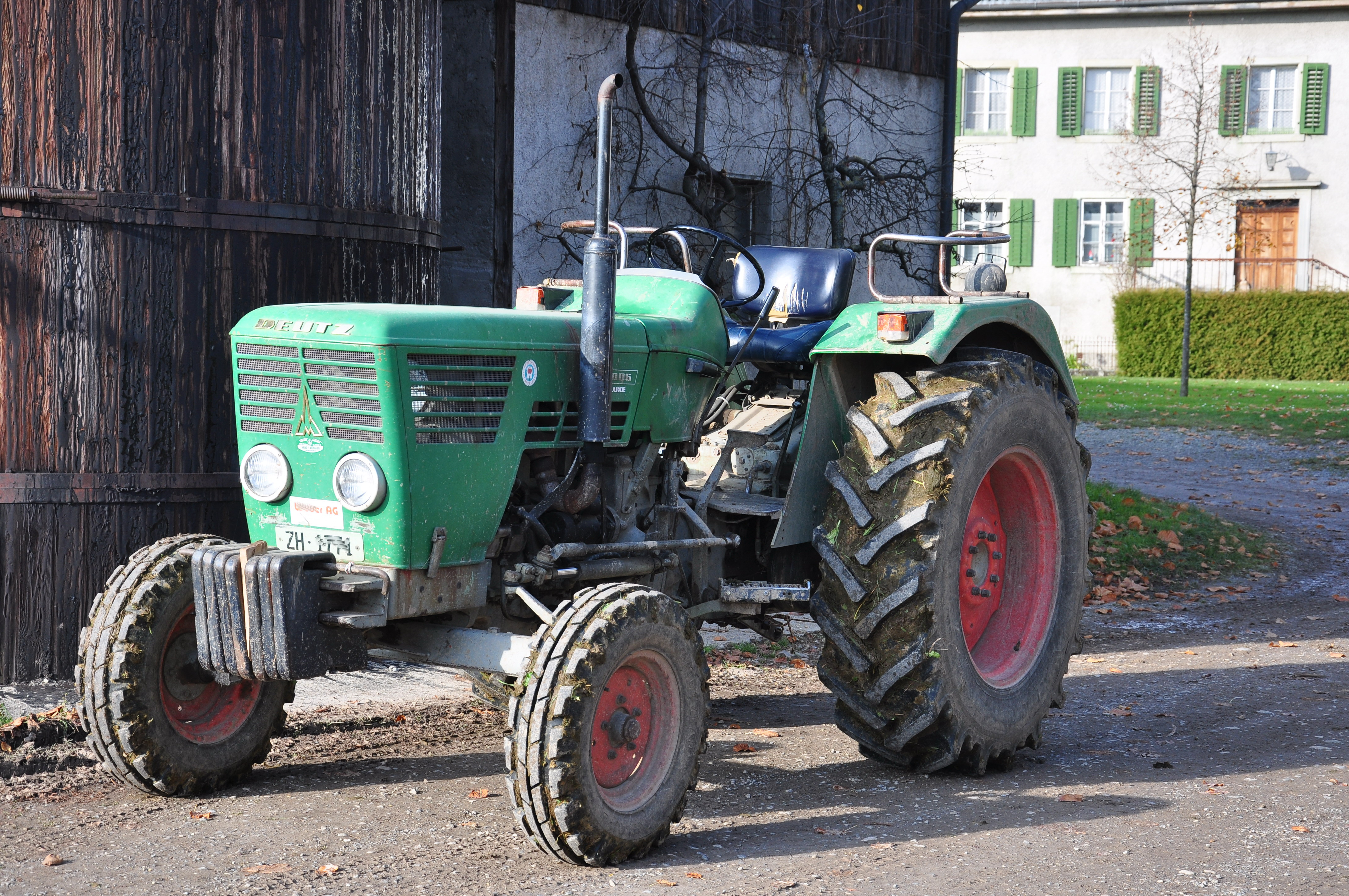 Deutz tractor (some model of the D-06 series), Ritterhaus in Bubikon (Switzerland)